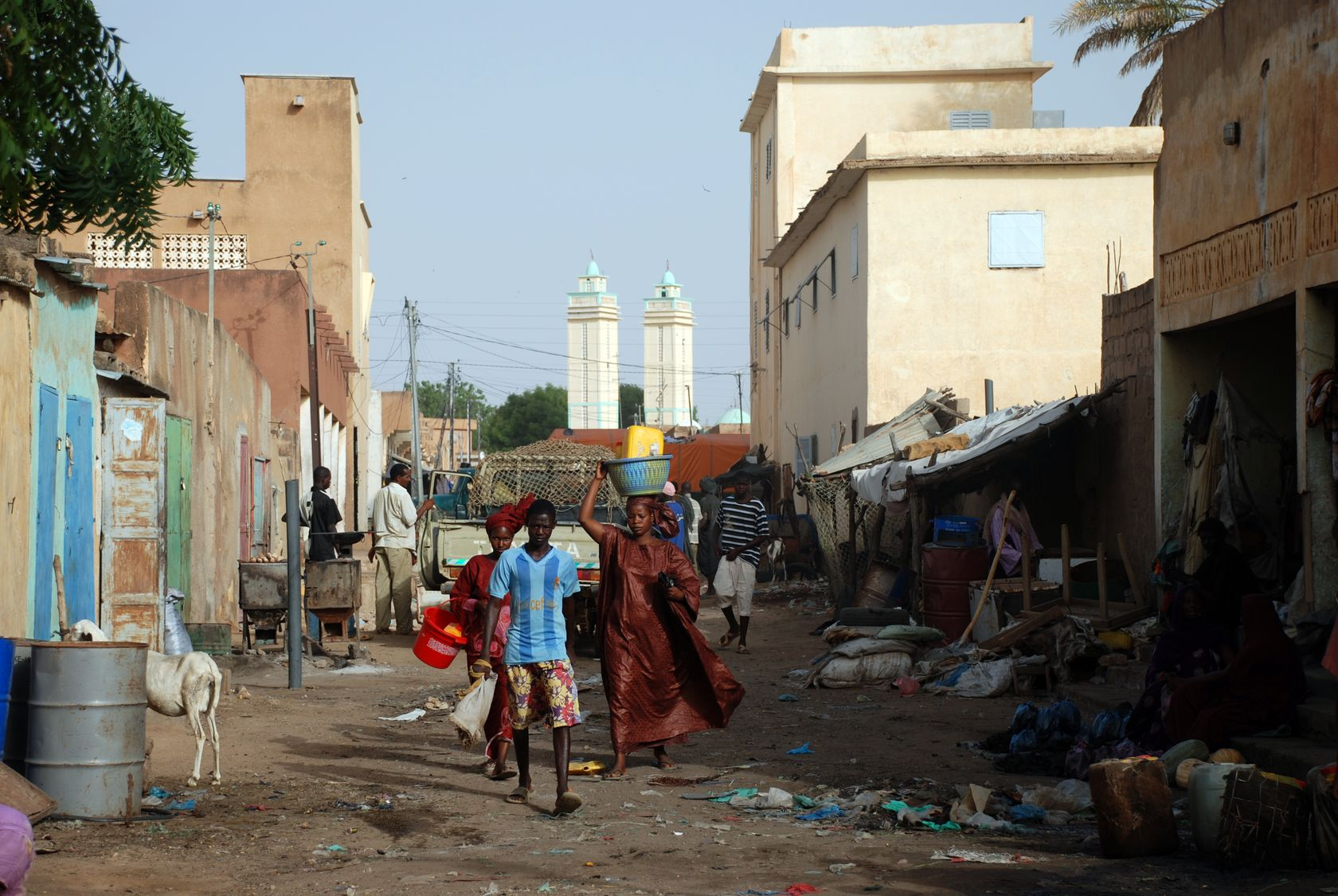 Kaédi, Mauritania, market center